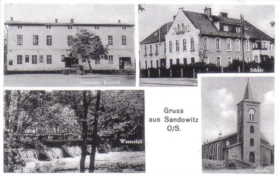 Post card from Sandowitz, Upper Silesia